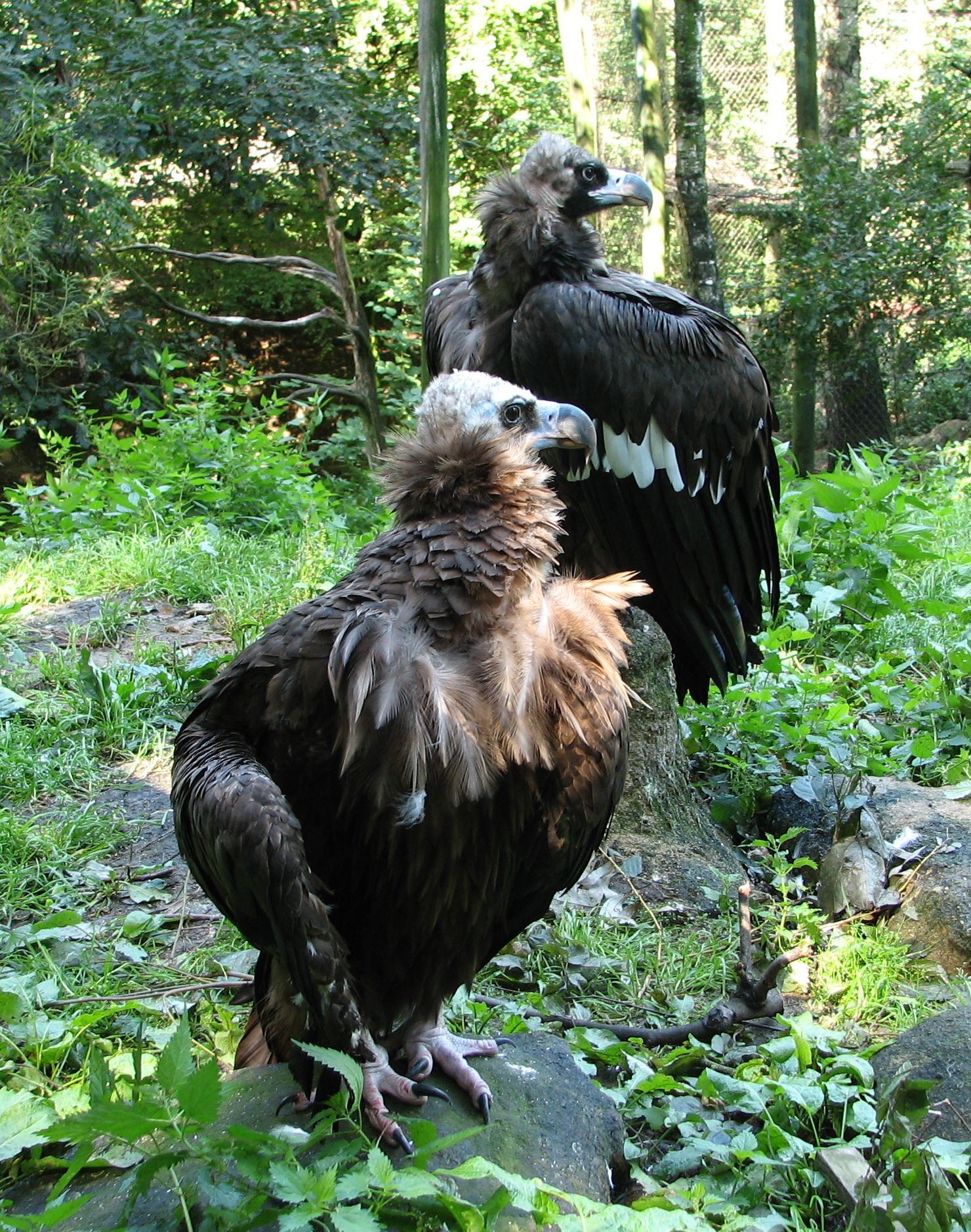 Two Cinereous Vultures (Aegypius monachus) in ZOO Olomouc, Czech Republic